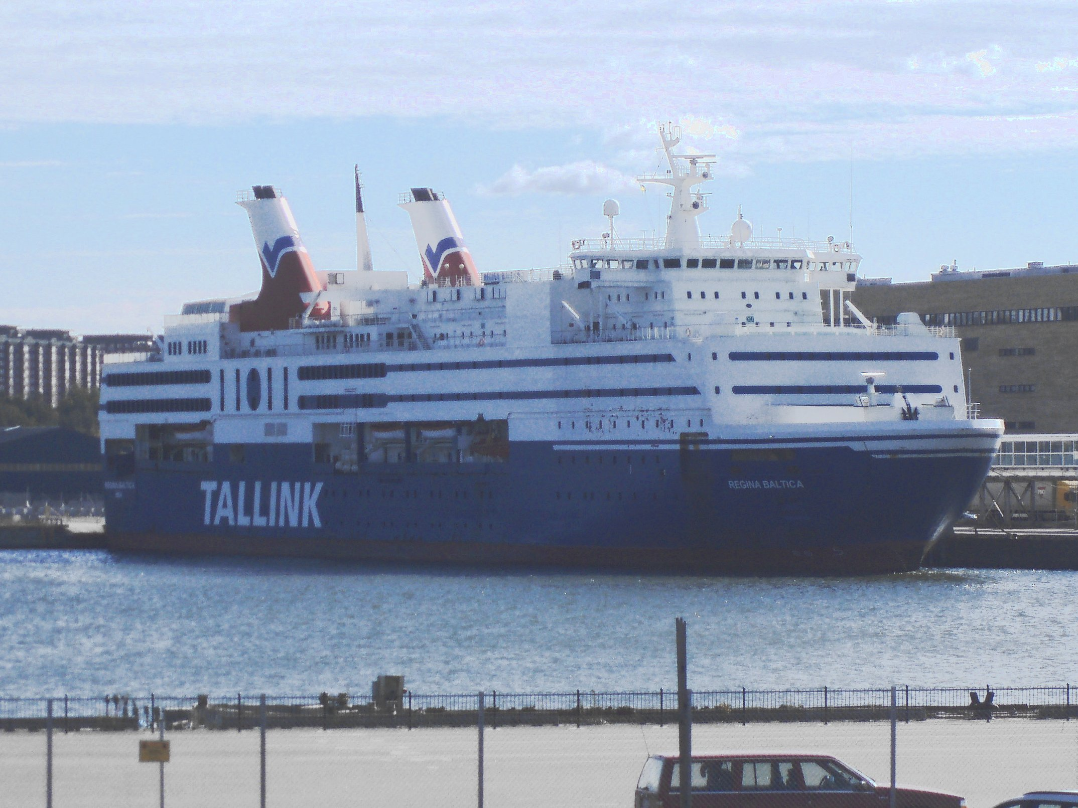 Tallink MF Regina Baltica in Stockholm Frihamnen. IMO Number: 7827225 MMSI Number: 275054000 Callsign: YLBP Length: 145 m Beam: 25 m